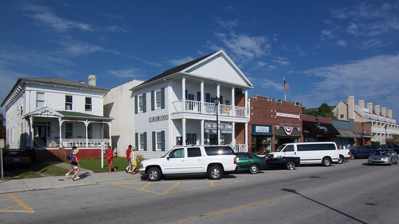 Shops and historic homes in downtown Beaufort NC. Taken by Carson Maynard, 04 September 2006.